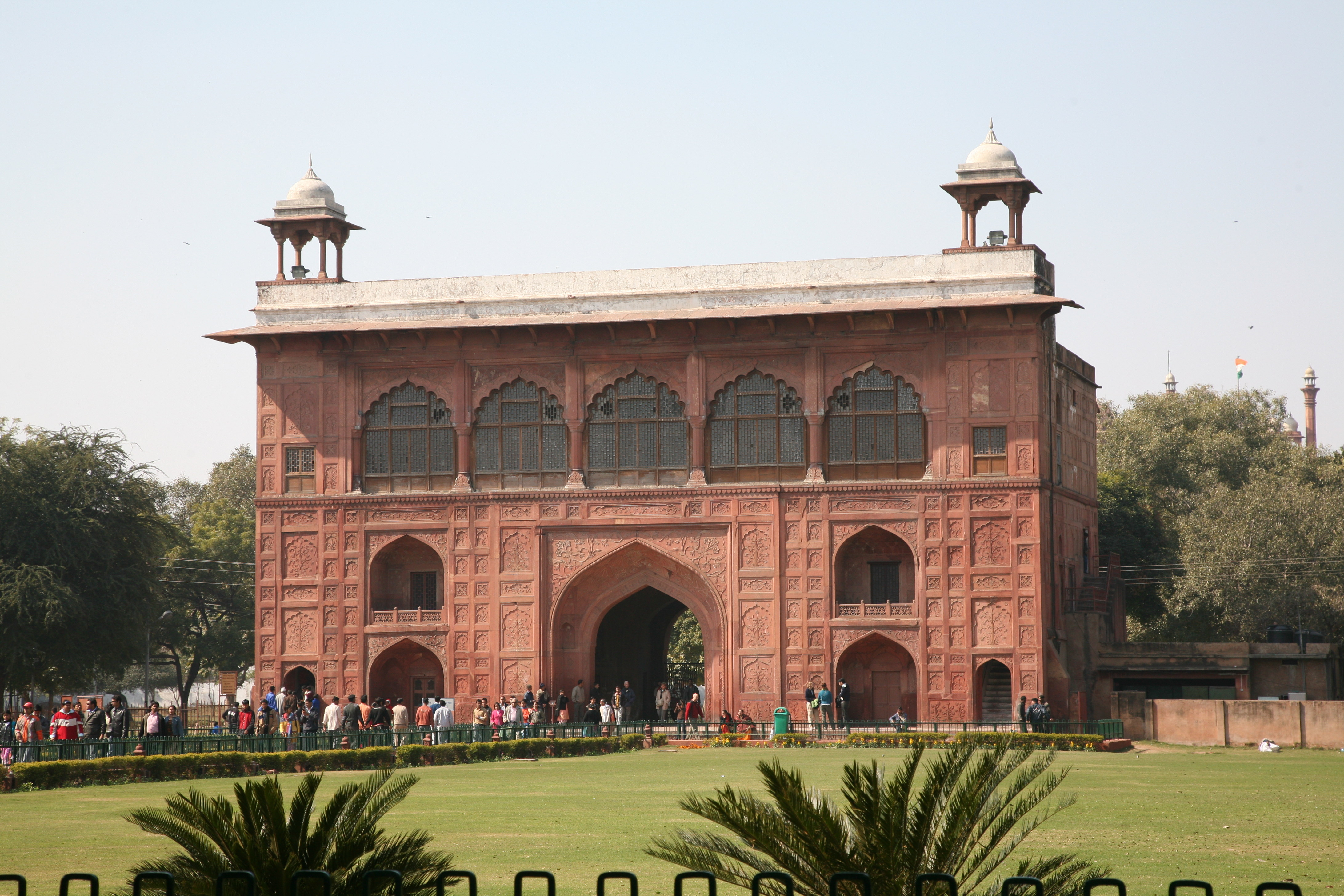 Naqqar Khana at the Red Fort, Delhi